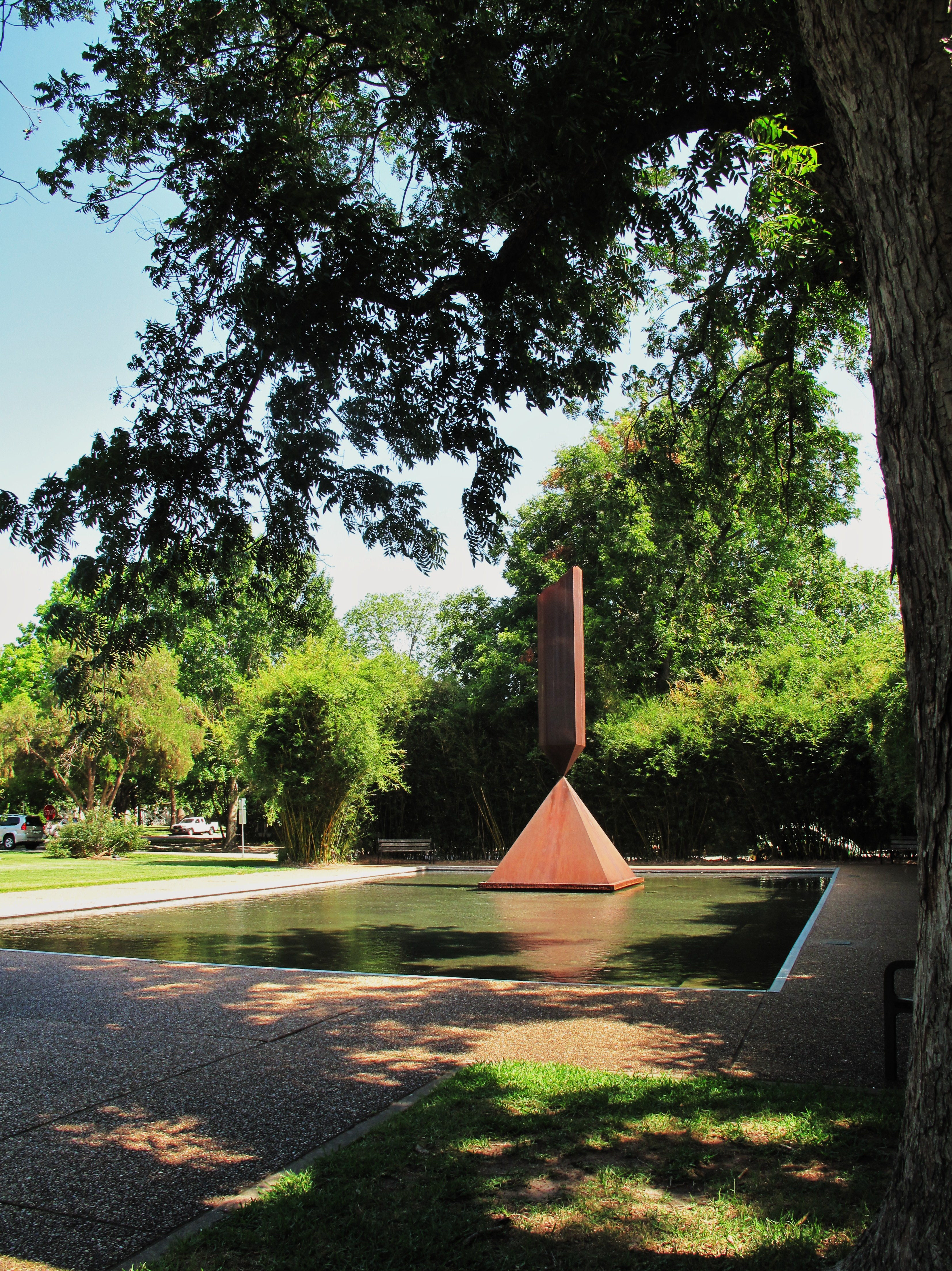 Barnett Newman in Houston